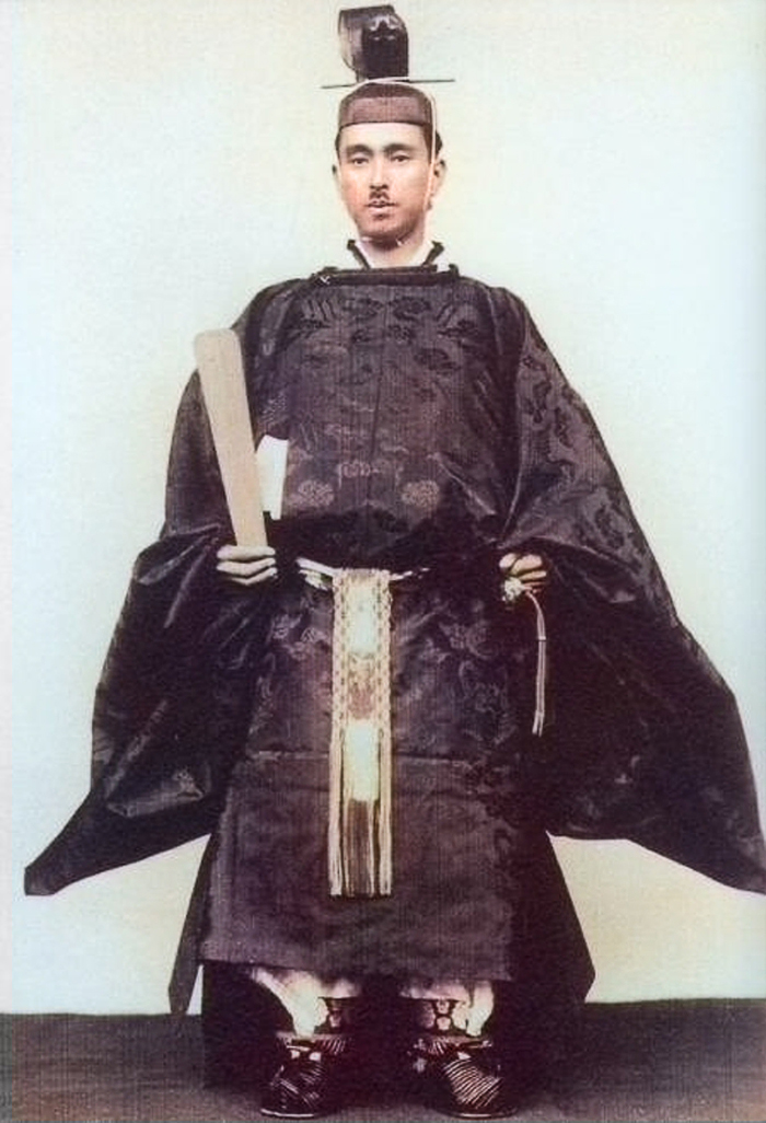 Prince Asaka Yasuhiko